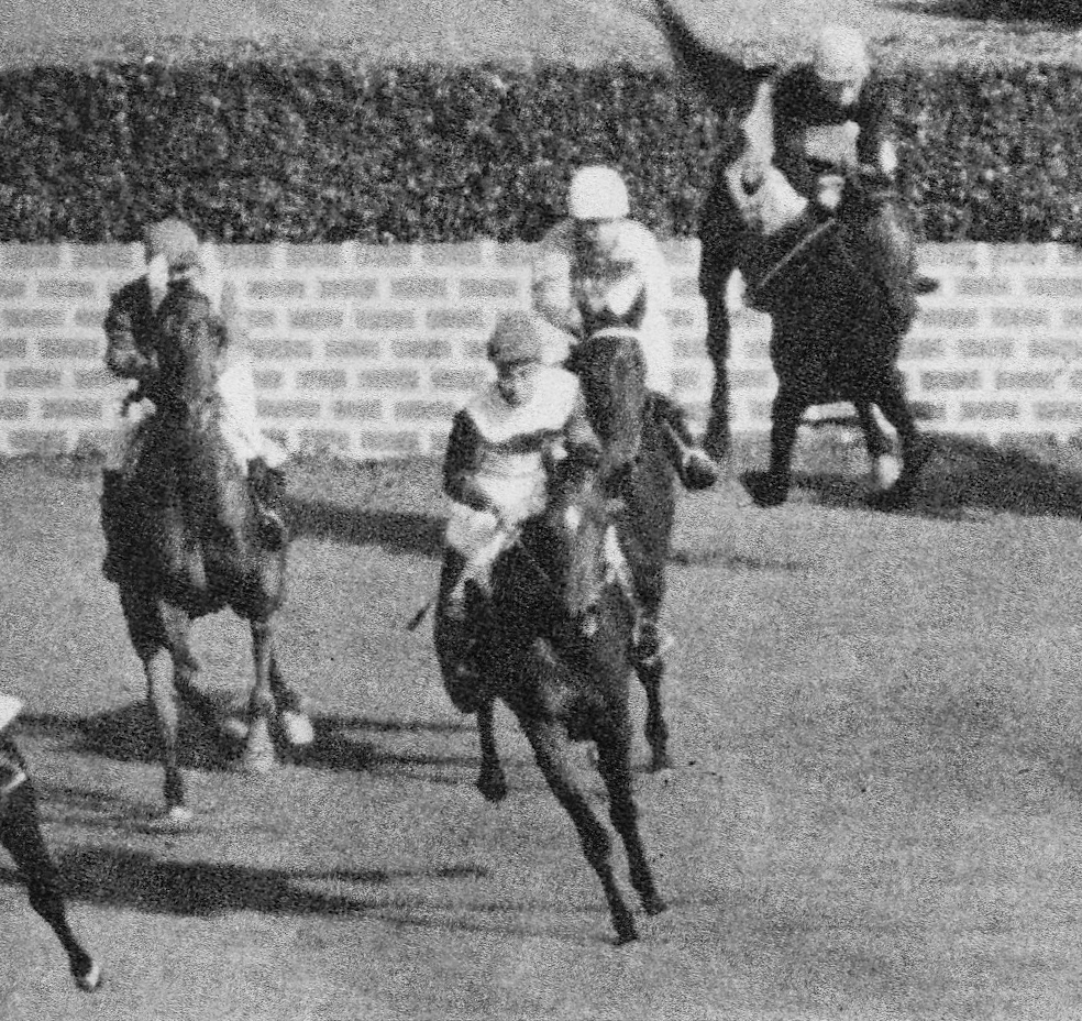 Nakayama Daishogai Autumn(1958)